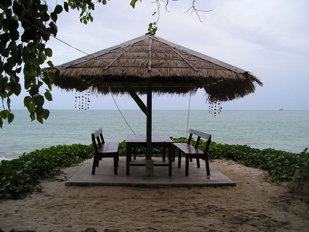 Author: Kereish Place: Ko Samet Island, Thailand Date: August 2005